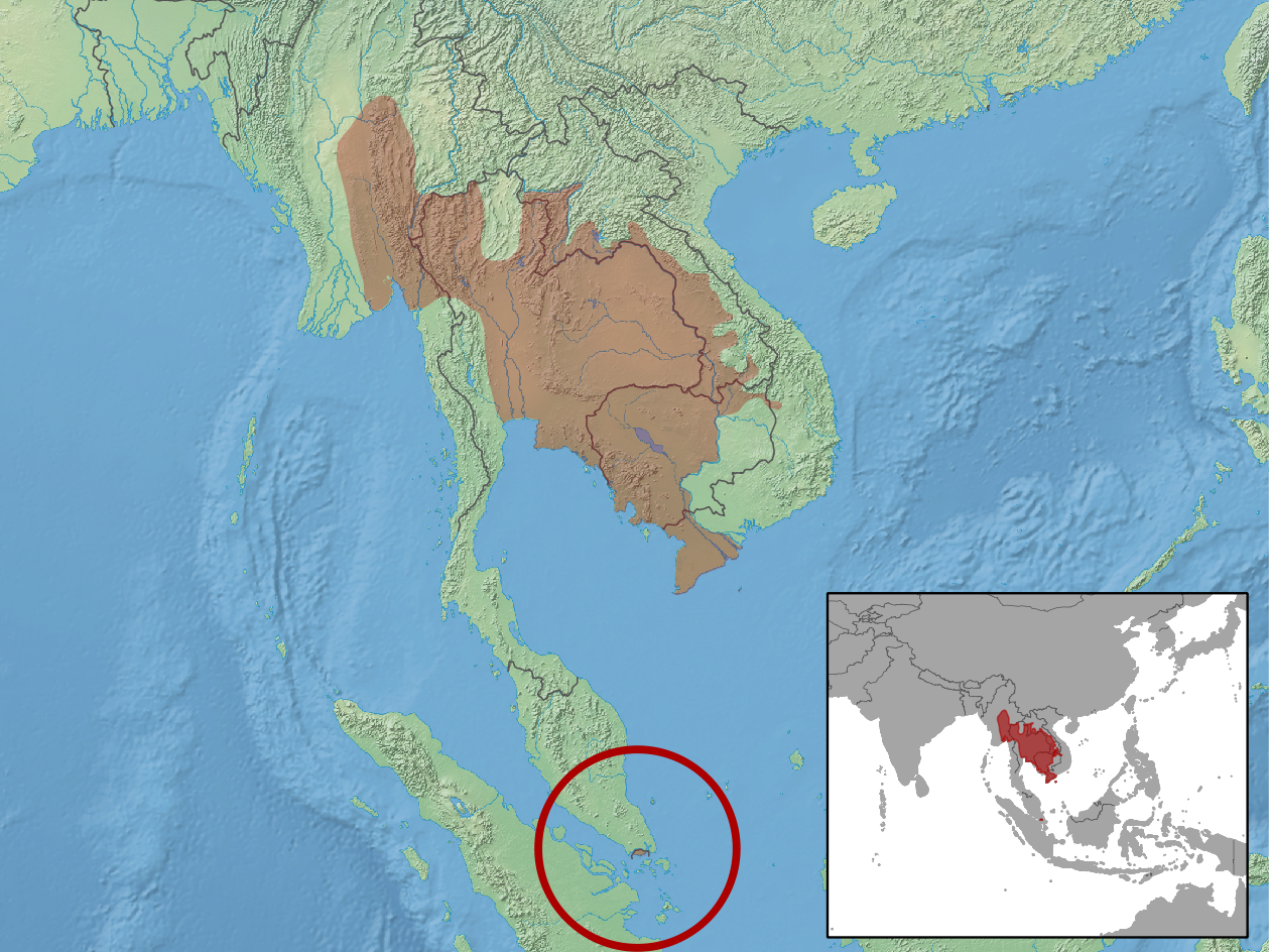 geographic distribution of Callosciurus finlaysonii